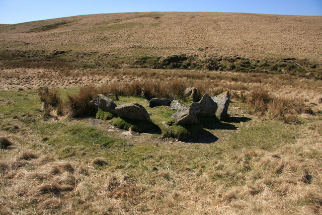 Grim's Grave A comparatively well preserved cist. For the associated legend